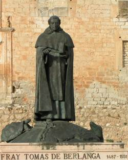 Personal photo of statue in Berlanga de Duero, Soria, Spain